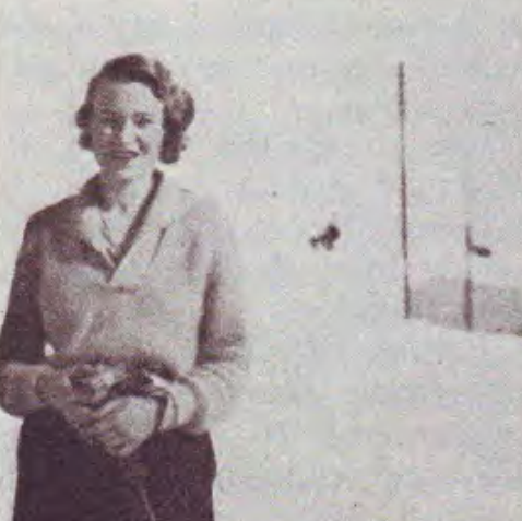 Audrey Florice Durrell Drummond Sale-Barker (1903 in Chelsea, London – 21 December 1994. Durell Sale-Barker skiing from1939 Canadian Ski Book from article by Bernice Duthie